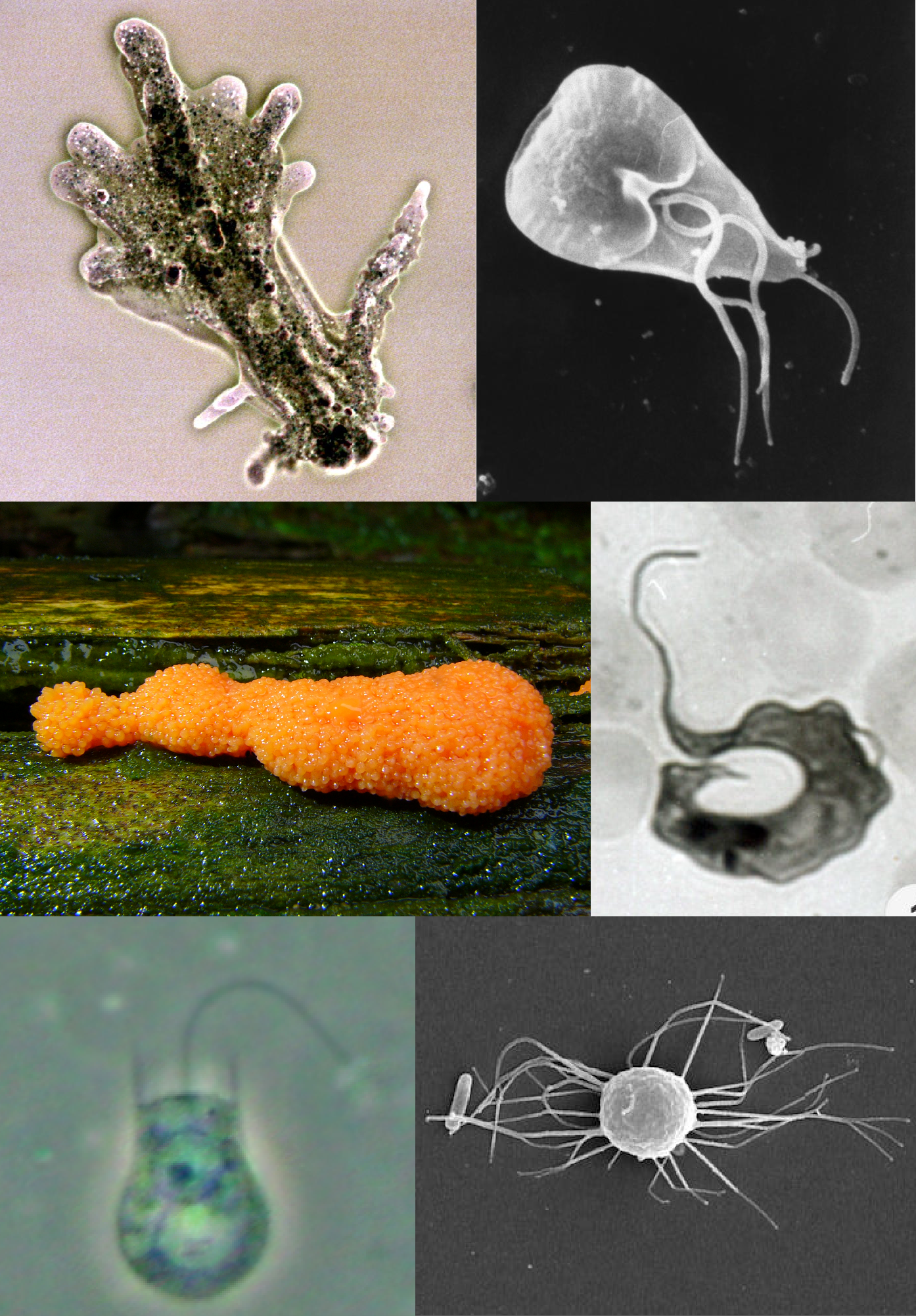 Protozoa kingdom collage